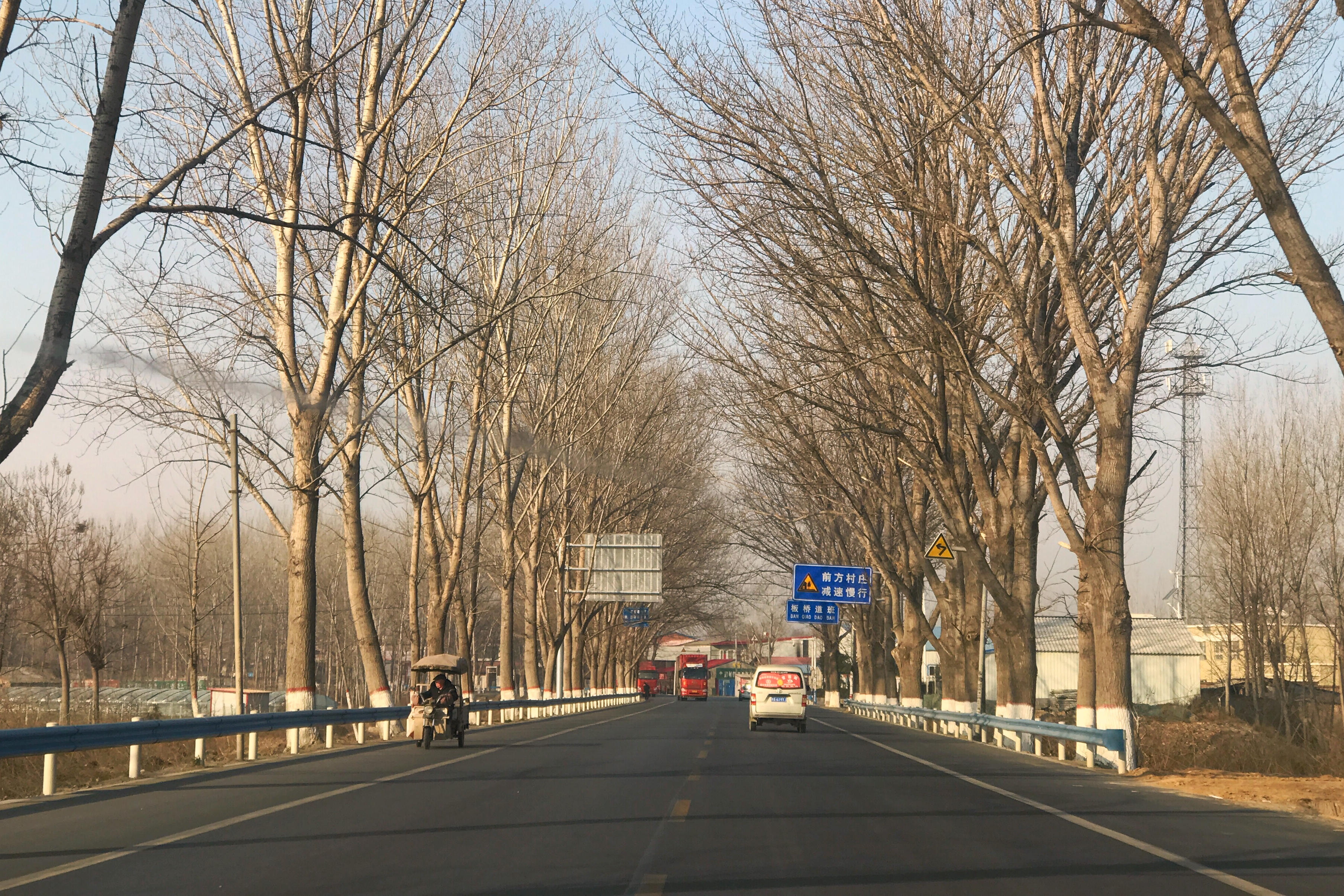 Highway G220/G310 between Zhongmu County and Kaifeng, Henan